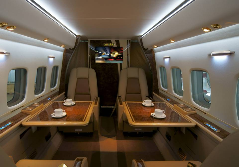 L410 UVP-E20